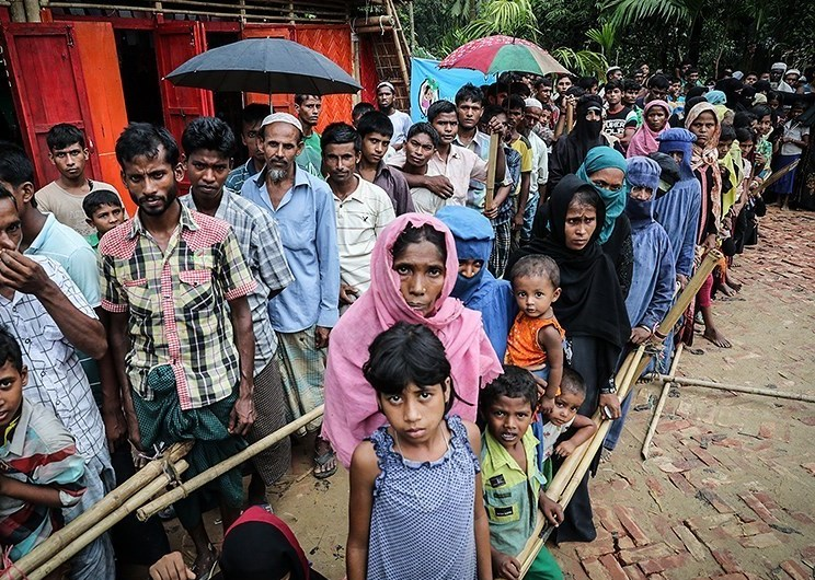 Rohingya displaced Muslims